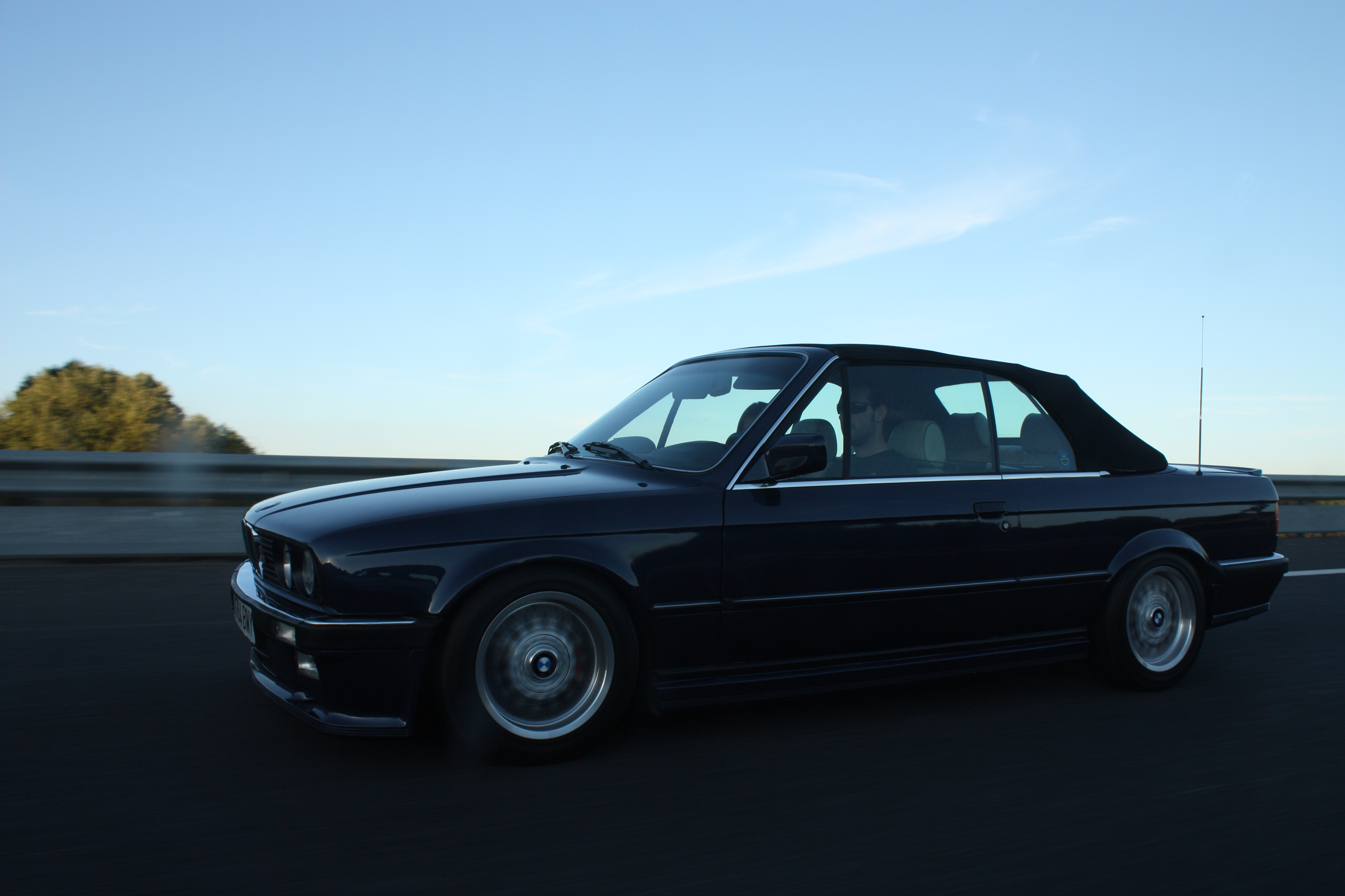 BMW E30 325i Cabrio